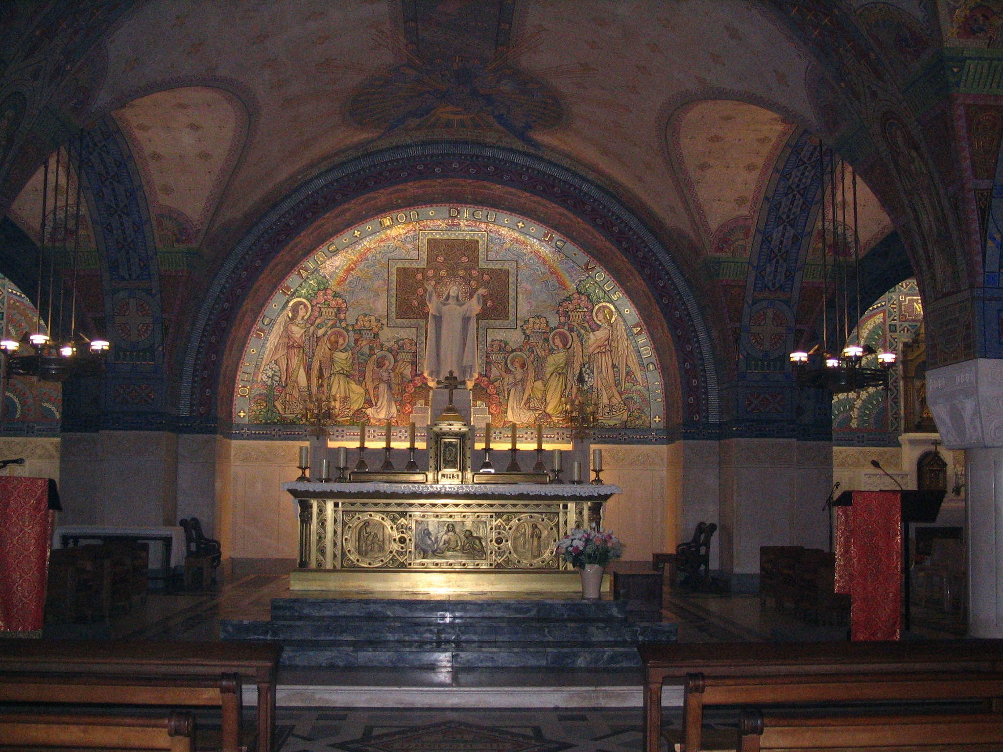 crytpte